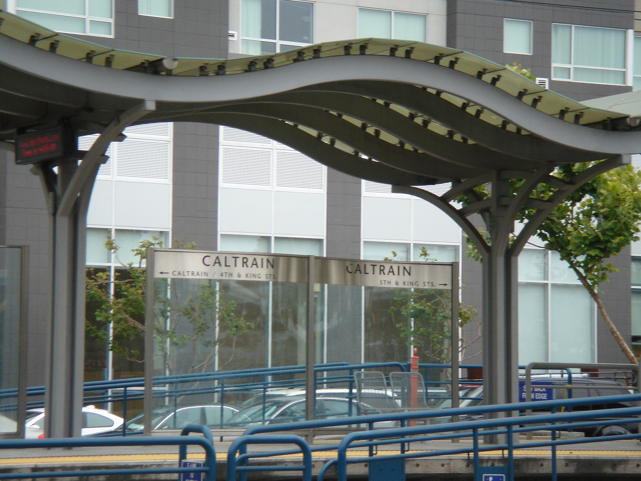 Muni Metro N Judah 4th and King station